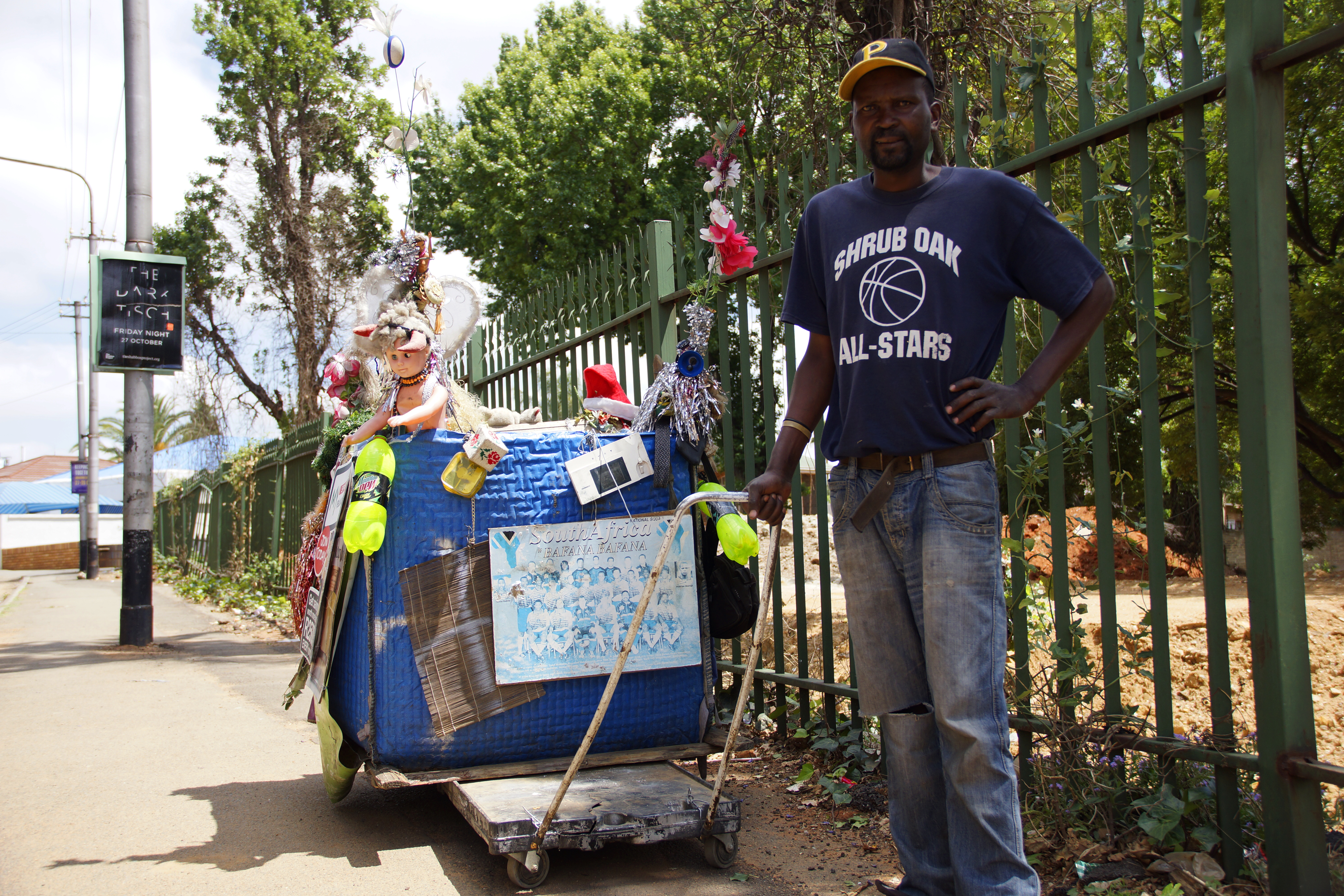 This man walks around the streets each day with his trolley to check the bins in the neighbourhood, where he lives on the street. He is one of many, but the only one who shows commitment and passion by the way he has decorated his trolley. Commitment and dedication is not attached to social classes, but to your personality (1/2) This is an image of "African people at work" from South Africa